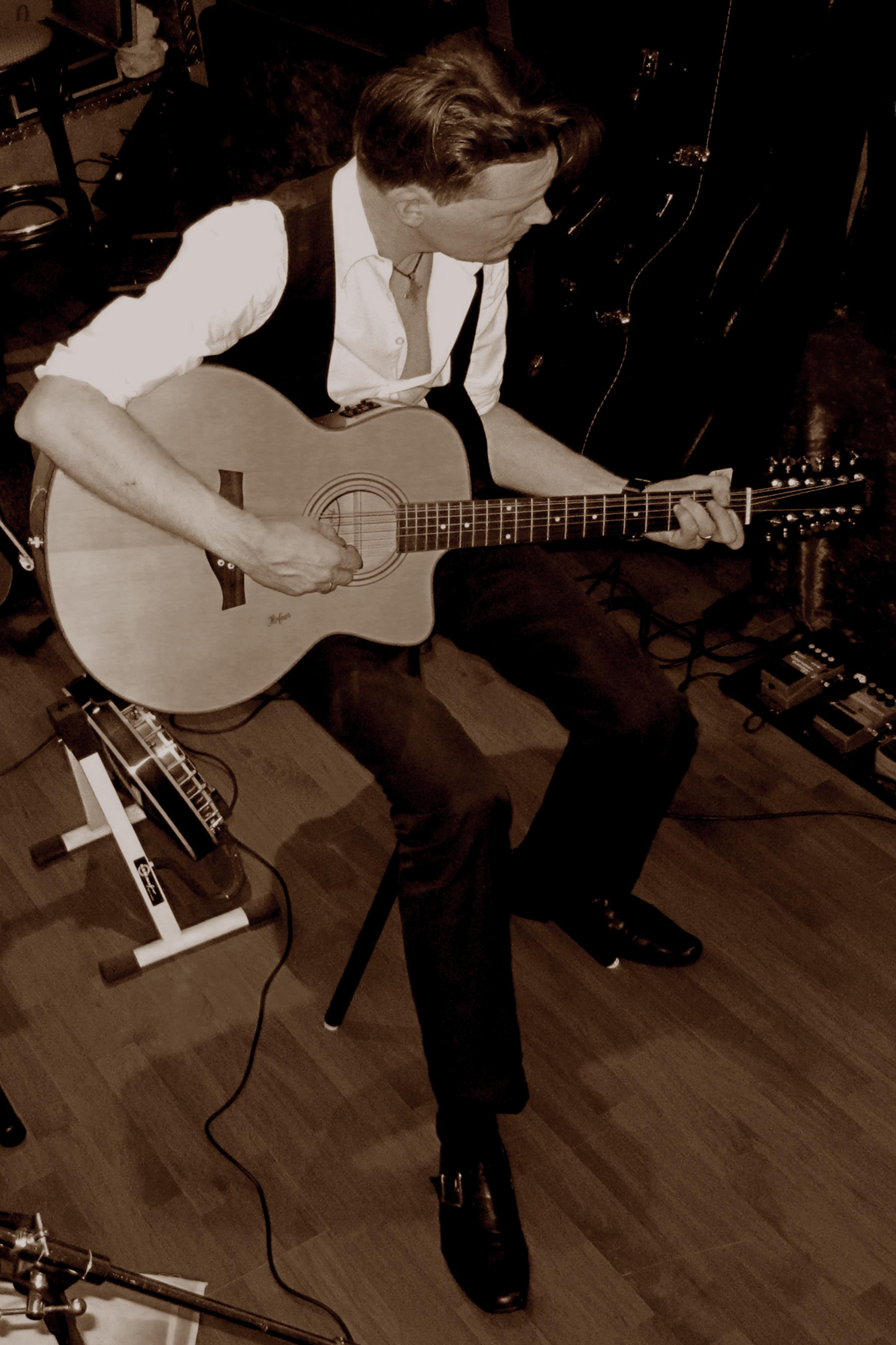 Saline Grace at Raum1 recording their album 'Fog Mountain' in 2009